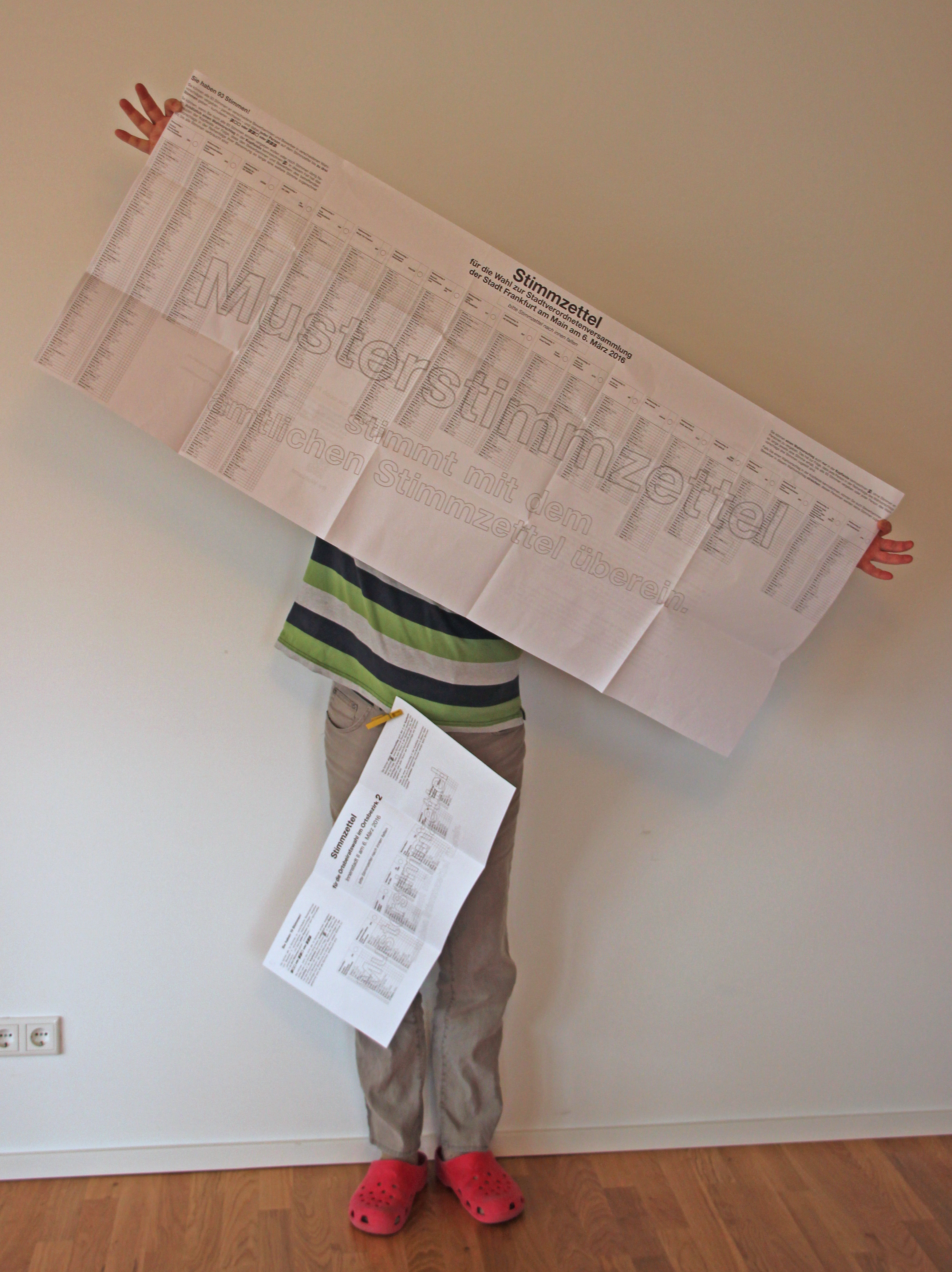 A huge ballot paper for the local election in Hesse (in Frankfurt), with many candidates! The election took place on March 6, 2016.